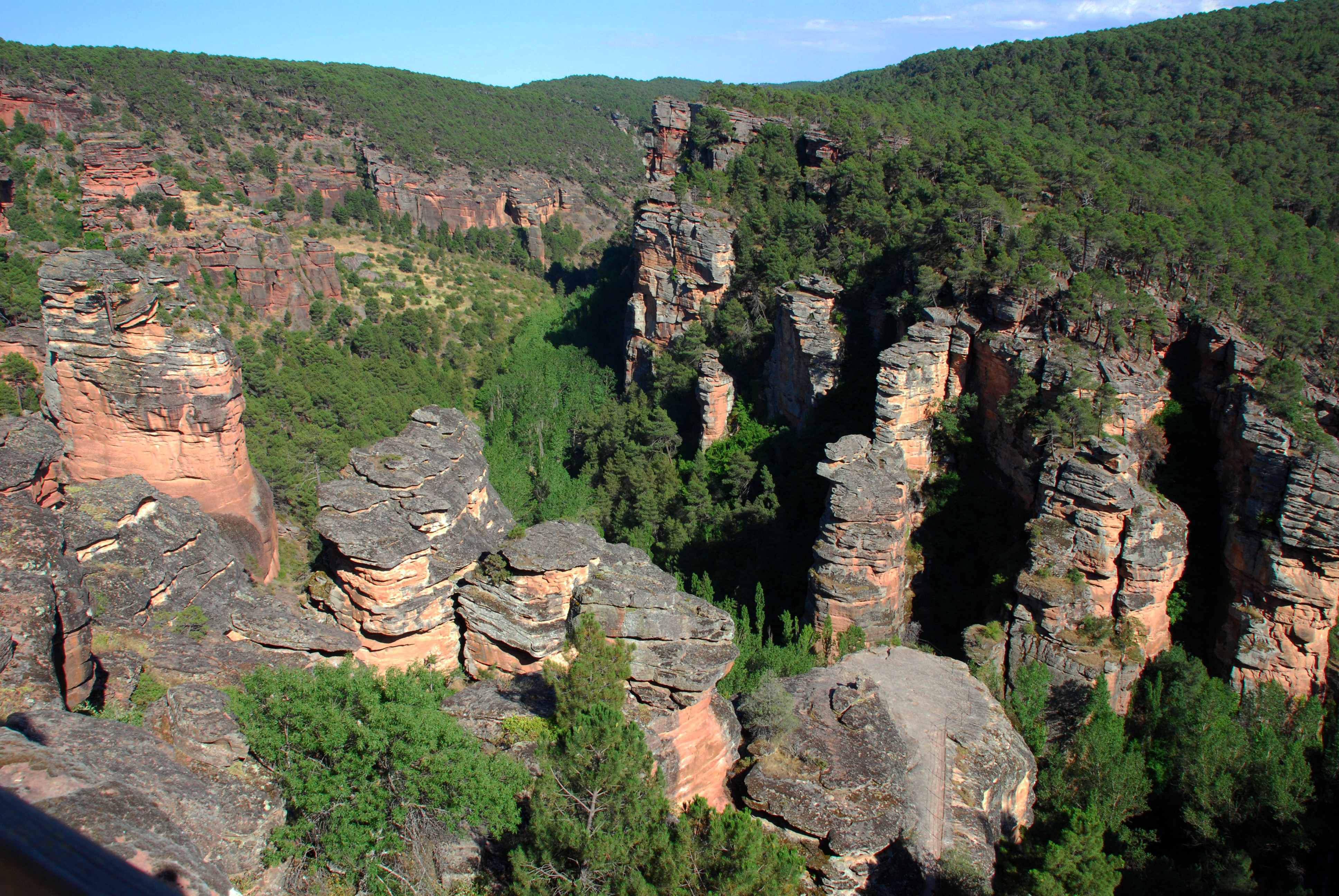 Hoz canyon in Gallo river, in Upper Tagus Natural Park, in Guadalajara, Spain. Hoz del Gallo Conglomerates Formation: conglomerates and sandstones of the Triassic Buntsandstein facies.